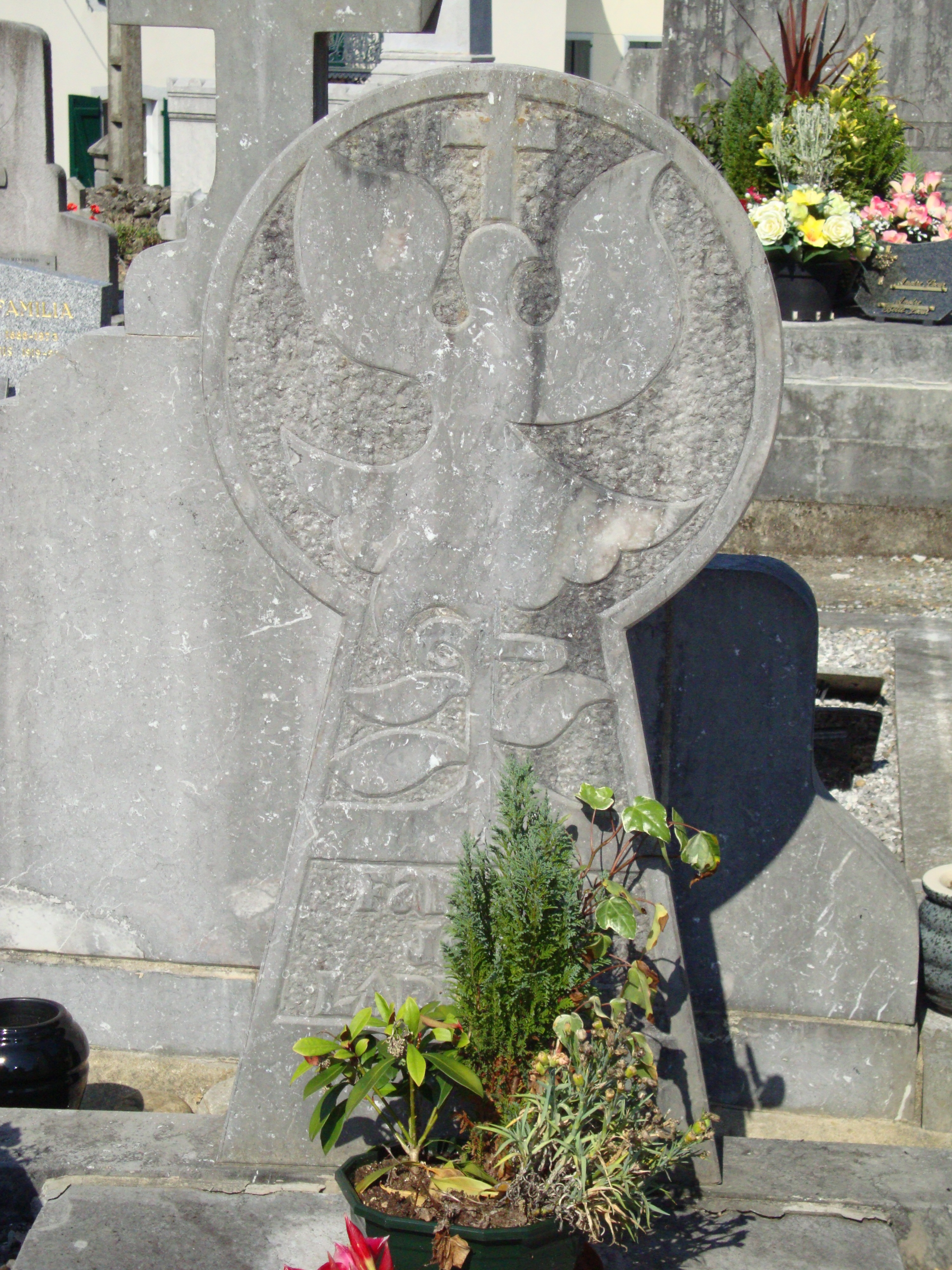 Tardets-Sorholus (Pyr-Atl, Fr) discoidal stele